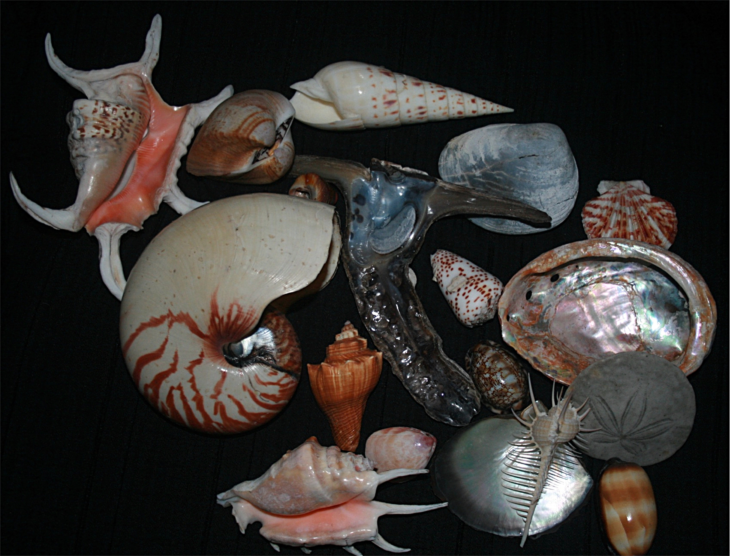 Shells of Marine Mollusca, including abalone, Nautilus belauensis and a fossil shell. (Also, a sand dollar, which is not in the phylum mollusca). Could you guess which one is fossil?